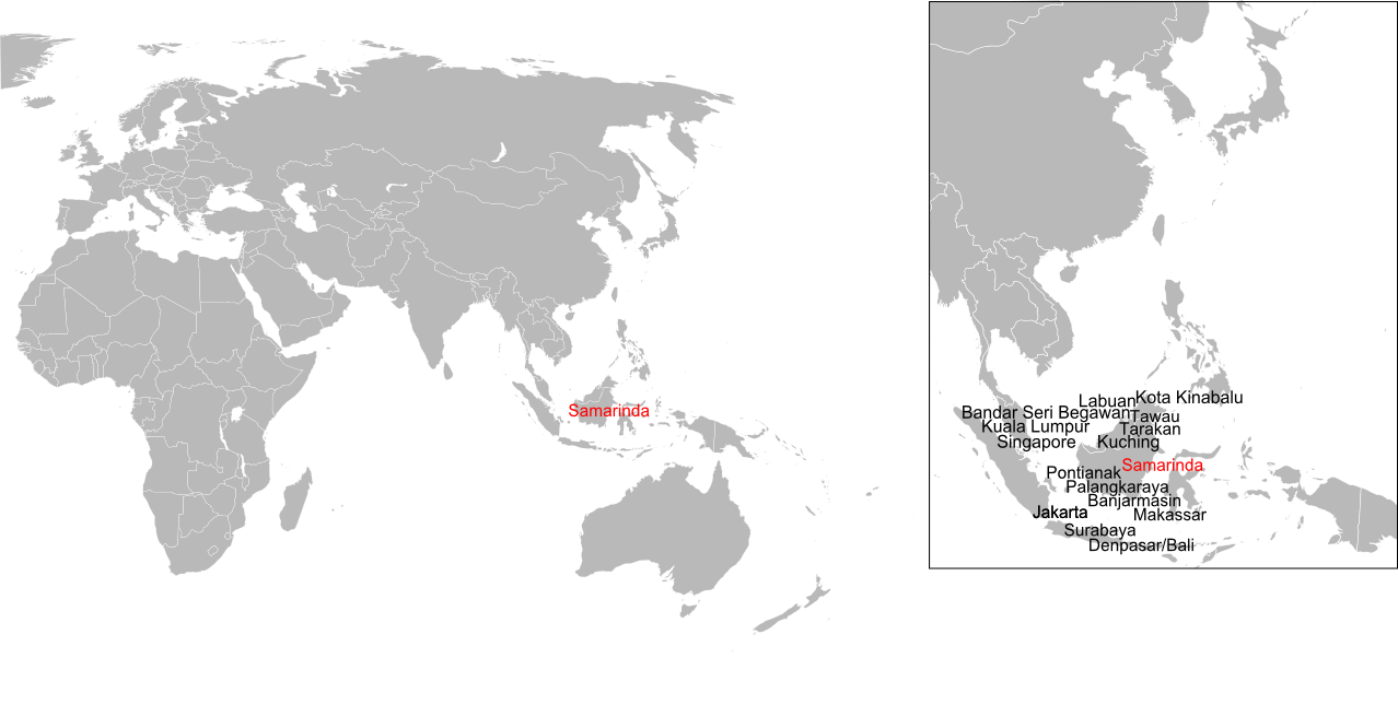 Direct international flights with SRI